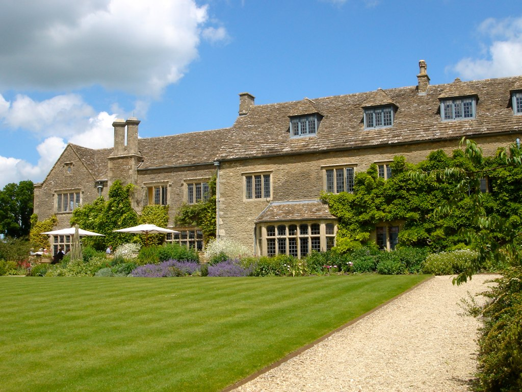 Our suite was the three windows right in the middle of the picture